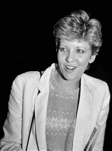 Nancy Allen en route to making promotional appearanes for the release of "Strange Invaders"